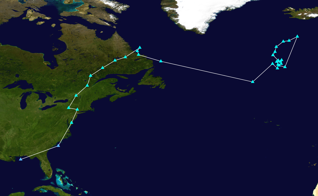 Track map of Storm Elsa of the 2019-20 European windstorm season. The points show the location of the storm at 6-hour intervals. The colour represents the storm's maximum sustained wind speeds as classified in the Saffir–Simpson scale (see below), and the shape of the data points represent the nature of the storm, according to the legend below. Saffir–Simpson scale Tropical depression≤38 mph≤62 km/h Category 3111–129 mph178–208 km/h Tropical storm39–73 mph63–118 km/h Category 4130–156 mph209–251 km/h Category 174–95 mph119–153 km/h Category 5≥157 mph≥252 km/h Category 296–110 mph154–177 km/h Unknown Storm type Tropical cyclone Subtropical cyclone Extratropical cyclone / Remnant low / Tropical disturbance / Monsoon depression